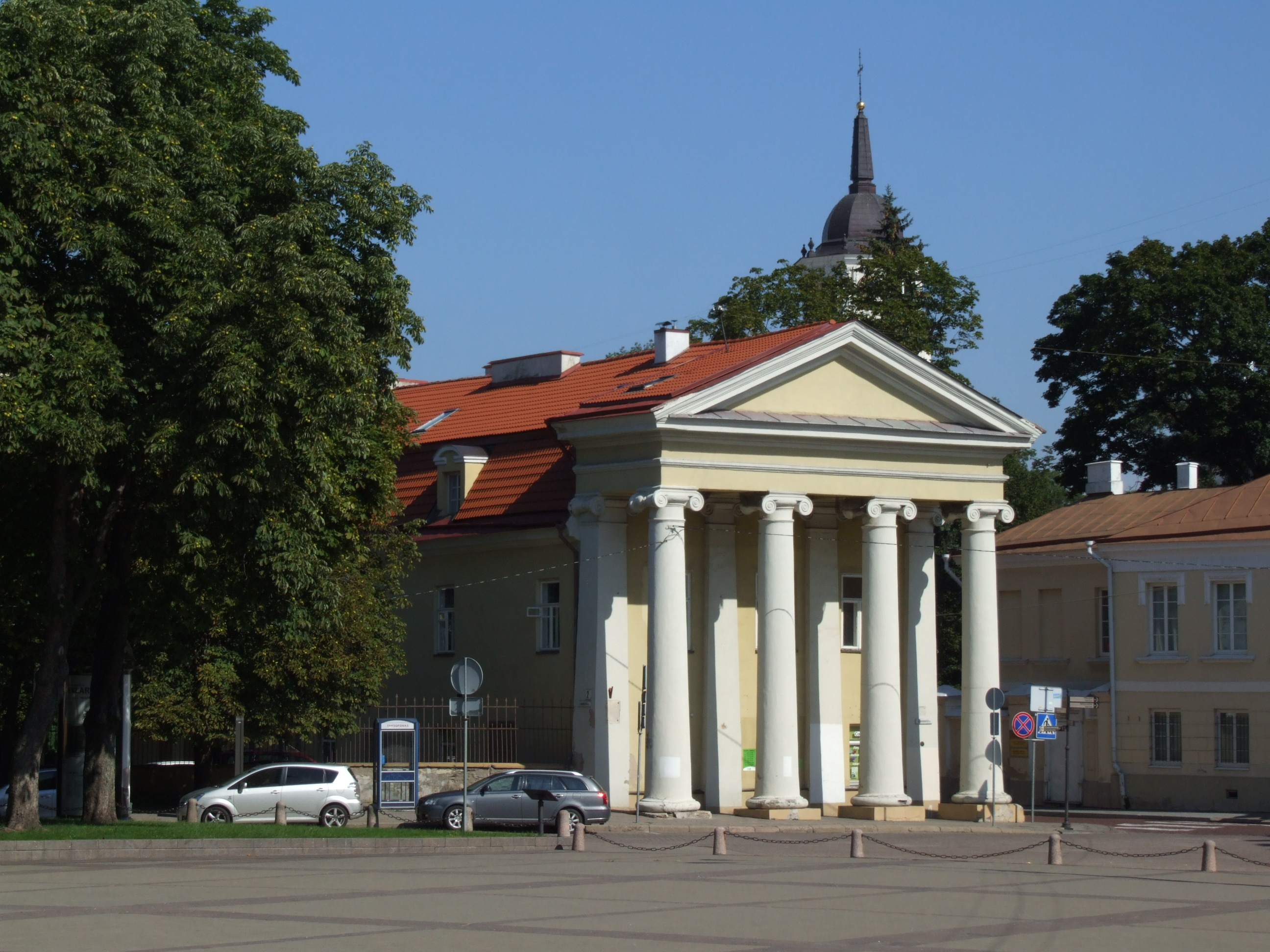 De Reus palace in Vilnius (Wilno)